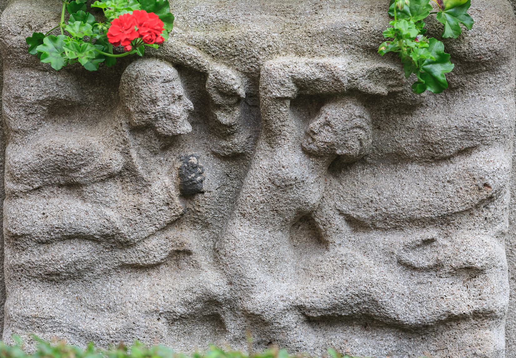 One of the reliefs on the outerside of the Mother Holle well in the inner bailey of the Eschwege castle in Eschwege, Hesse, Germany. This well was built in 1930 and shows important scenes from the fairytale "Mother Holle" from the Brothers Grimm on its outside in form of reliefs. These reliefs of coquina were designed by Professor Sautter from Kassel and formed into stone by the sculptor Sauer from Warburg/Westf.